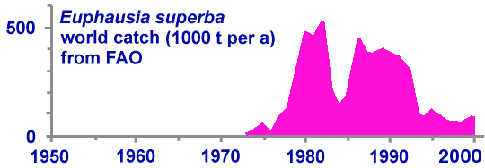 catch of krill from FAO data composed by Uwe Kils.